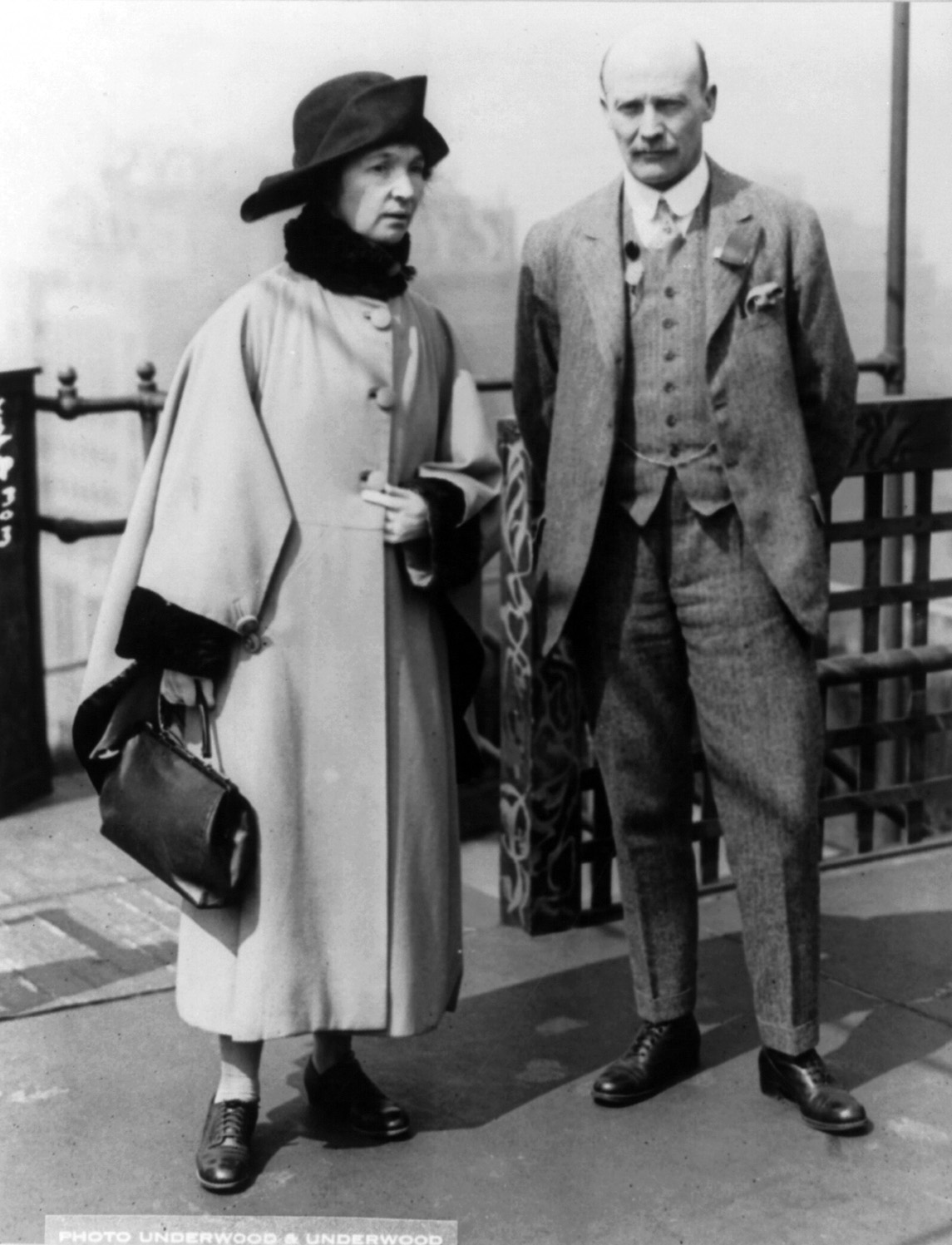 Sixth world birth control conference opens in U.S.A. - Dr. Charles V. Drysdale and Mrs. Margaret Sanger at opening of Sixth Internation Neo-Malthusian and Birth Control Conference, now in session at Hotel McAlpin, New York